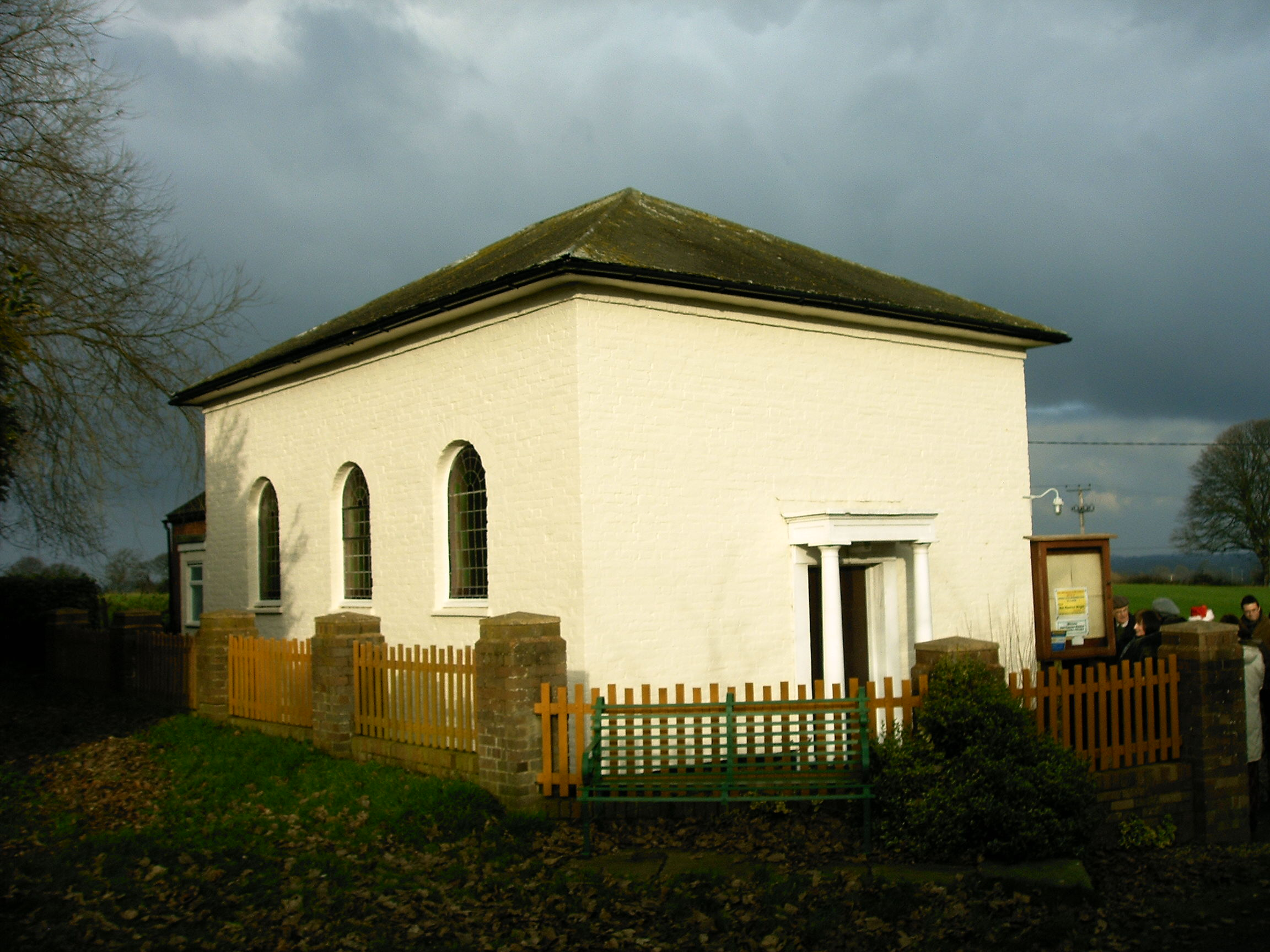 The exterior of Plealey Methodist Chapel, Shropshire.